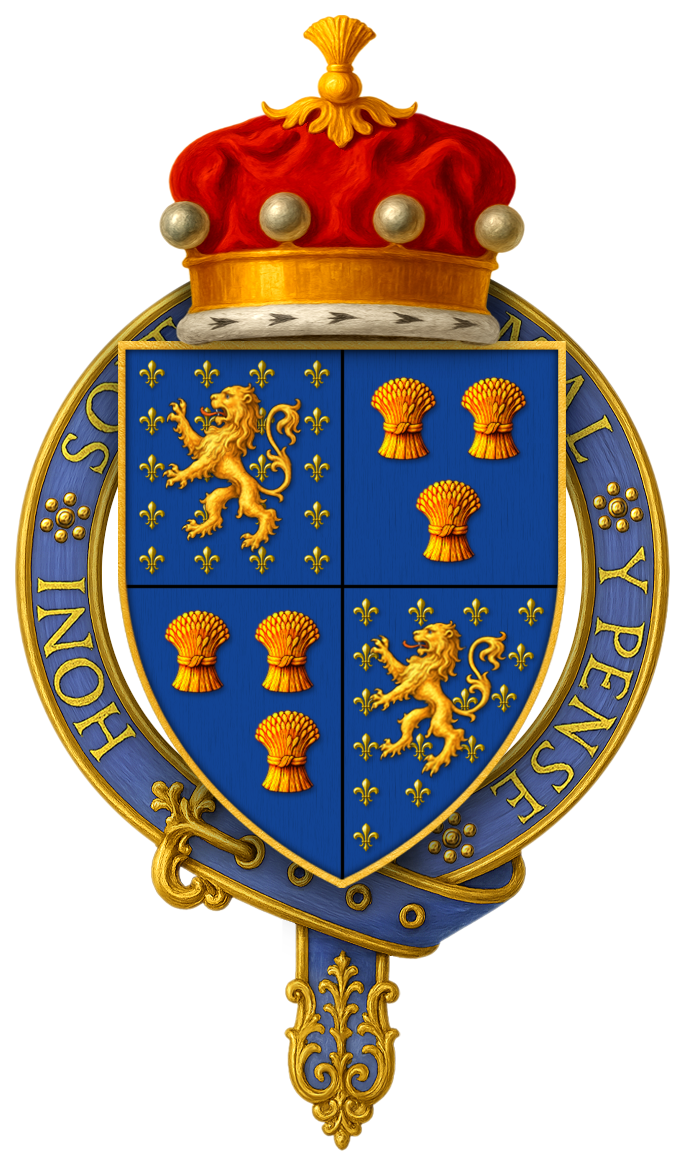 Sir John Beaumont, 4th Baron Beaumont, KG BELTZ, George Frederick, Memorials of the Order of the Garter from Its Foundation to the Present Time, London: William Pickering, 1841. “ John, Fourth Lord Beaumont… Arms: Azure, semée of fleurs de lis, a lion rampant, Or, BEAUMONT, quartering COMYN, Azure three garbs Or. ”